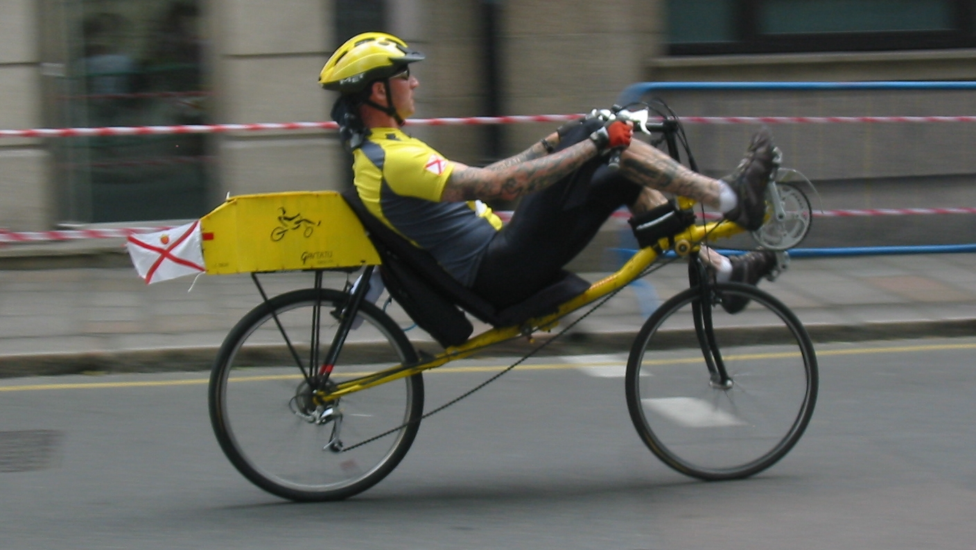 Jersey Town Criterium bicycle races, Saint Helier, Jersey, 24 May 2009